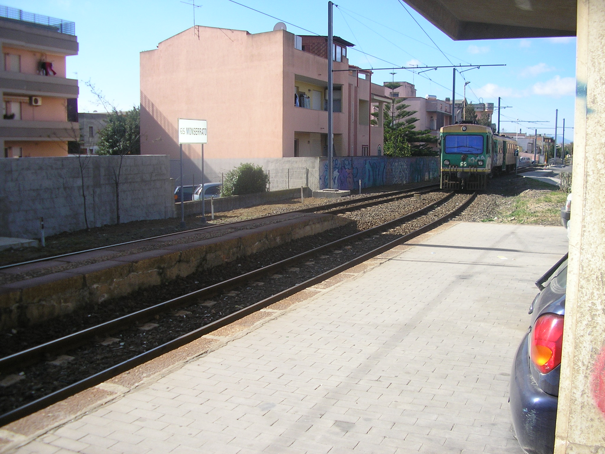 Ferrovie della Sardegna (FdS) train composed by two diesel multiple units ADe approaching the Monserrato railway station, in Sardinia, Italy